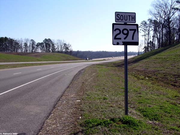 Alabama State Route 297 looking south across the Paul Bryant Bridge